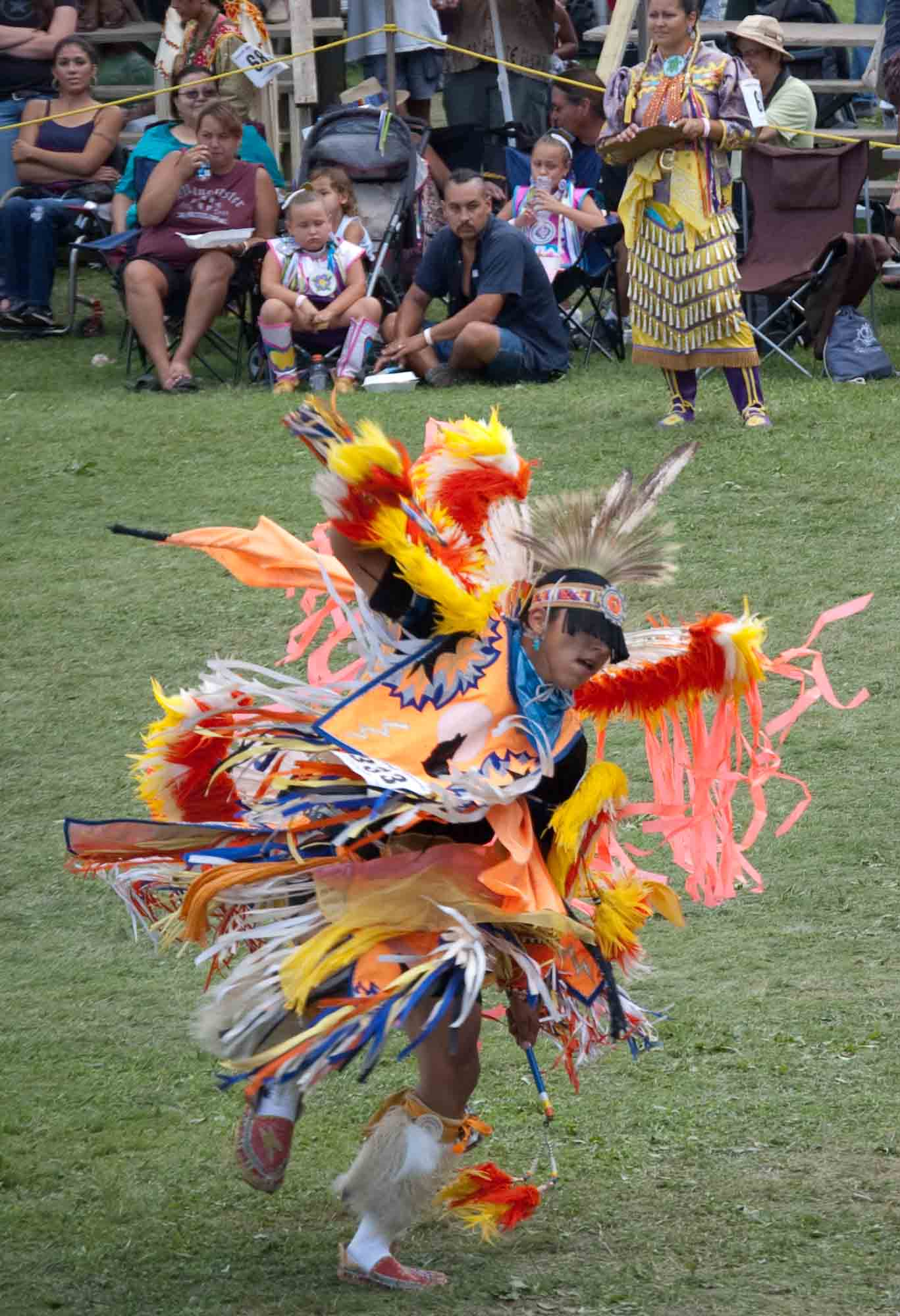 Six Nations Powwow, July 25 2010